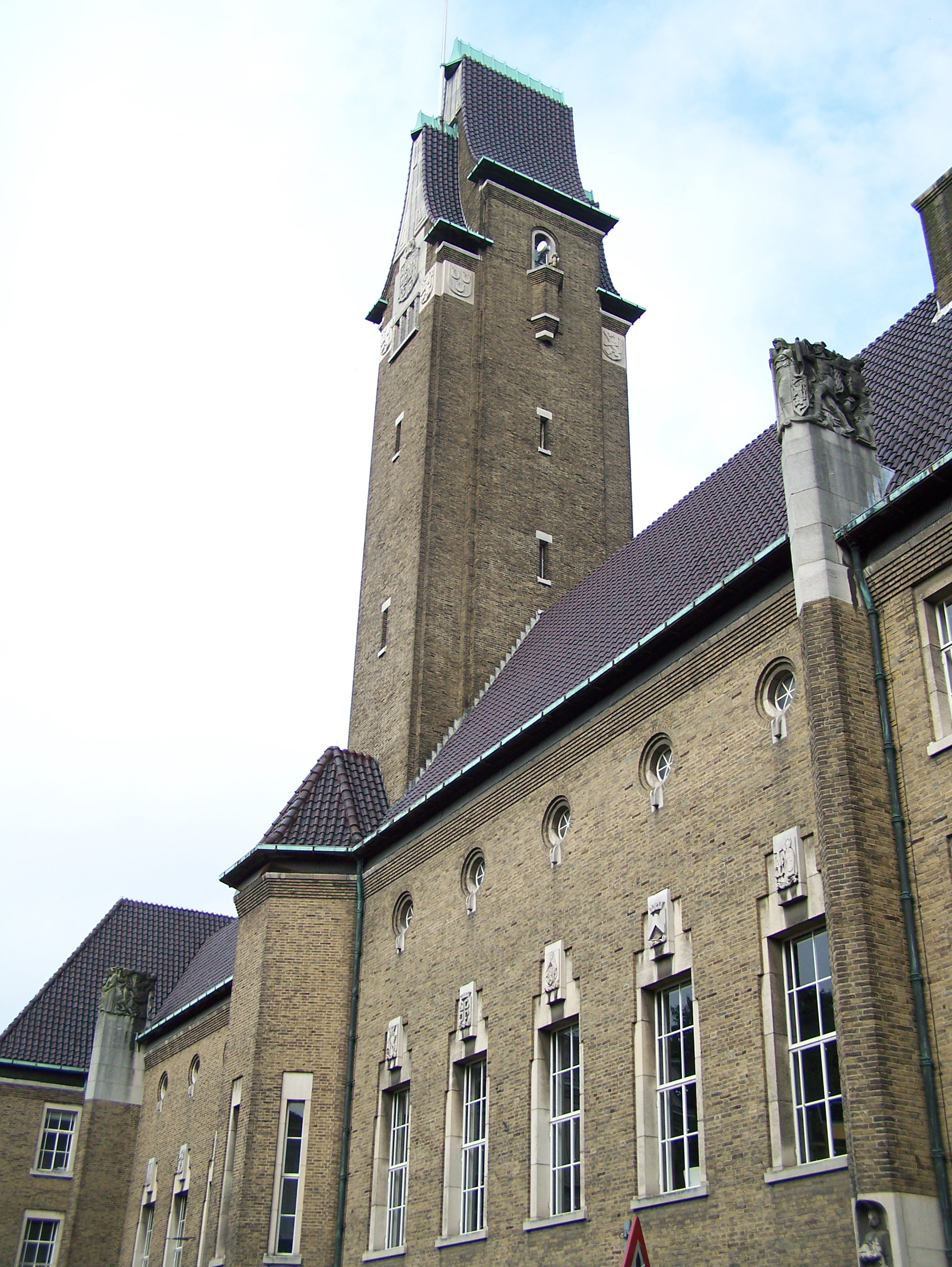 Building Gouvernement, former residence of the Gouvernor of Limburg. Now a part of the University. Build around 1935 and designed by G.C. Bremer.